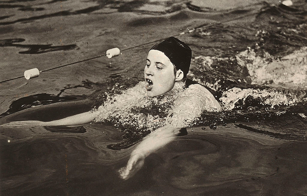 the young swimmer Martha Geneger establishes a new record in 200 meters